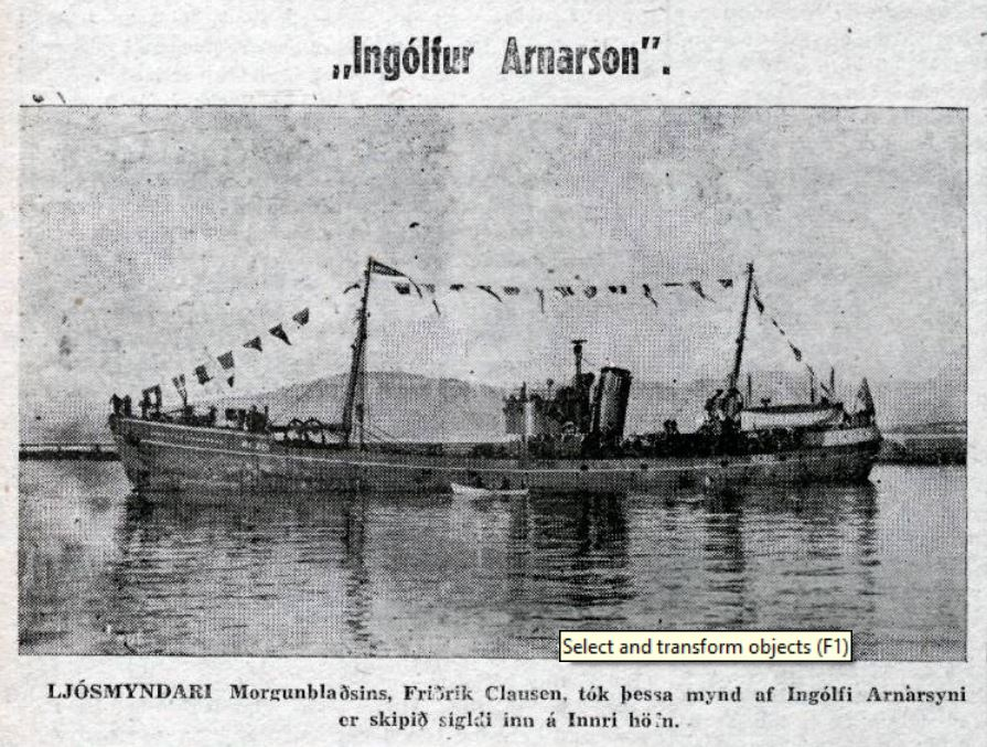 The trawler Ingólfur Arnarsson arrives in the harbour in Reykjavik on February 16, 1947. This was the first of "Nýsköpunartogarar" which were new 22 trawlers bought by Icelandic authorities when the Second World War was over.